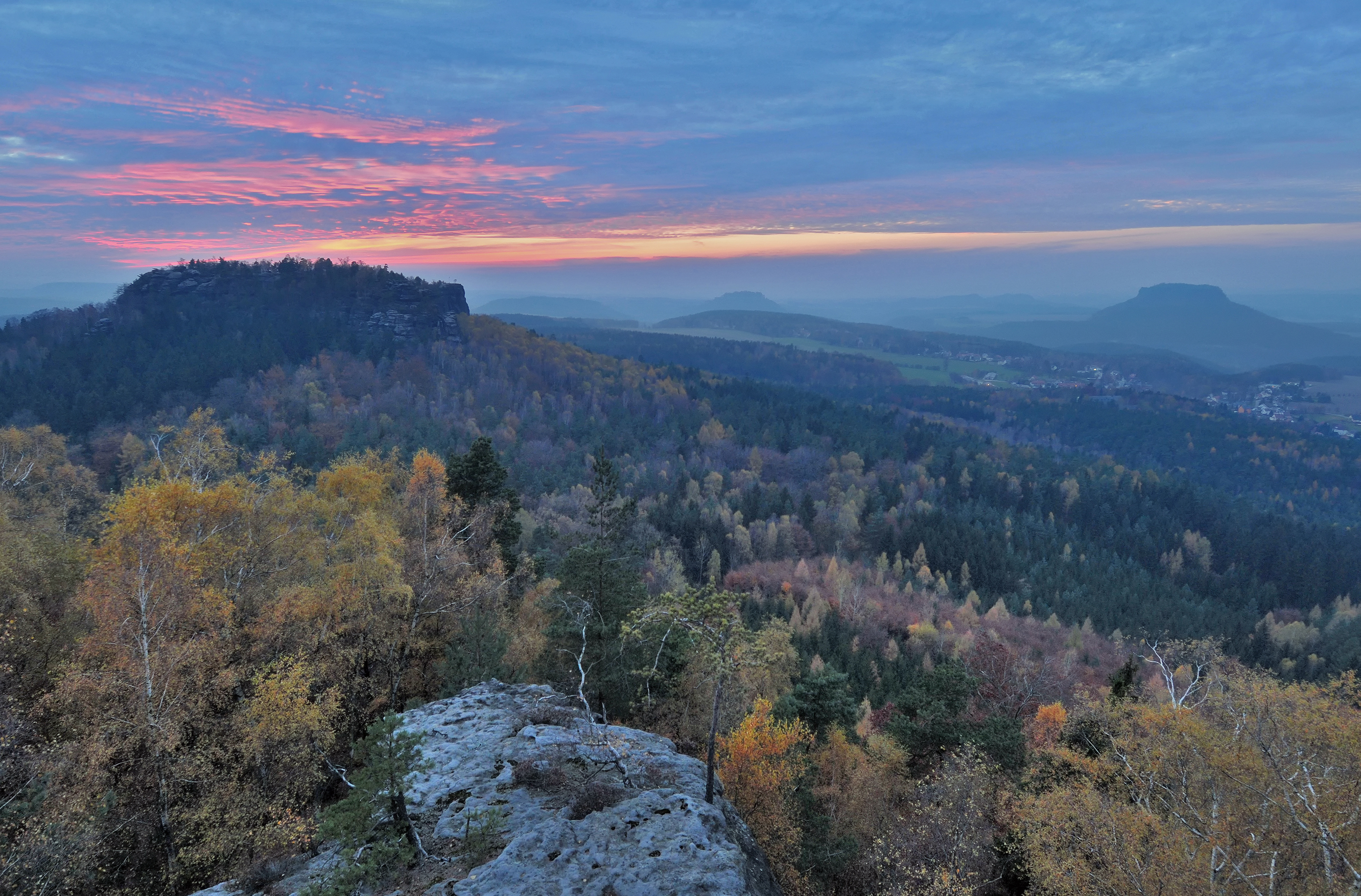 Sunset in the Saxon Switzerland National Park (background), Saxony, Germany. View from the viewpoint on the top of the Papststein. The three large mountains are Gohrisch (left), the Königstein Fortress (in exact centre) and the Lilienstein (right). The village has the name Kurort Gohrisch.